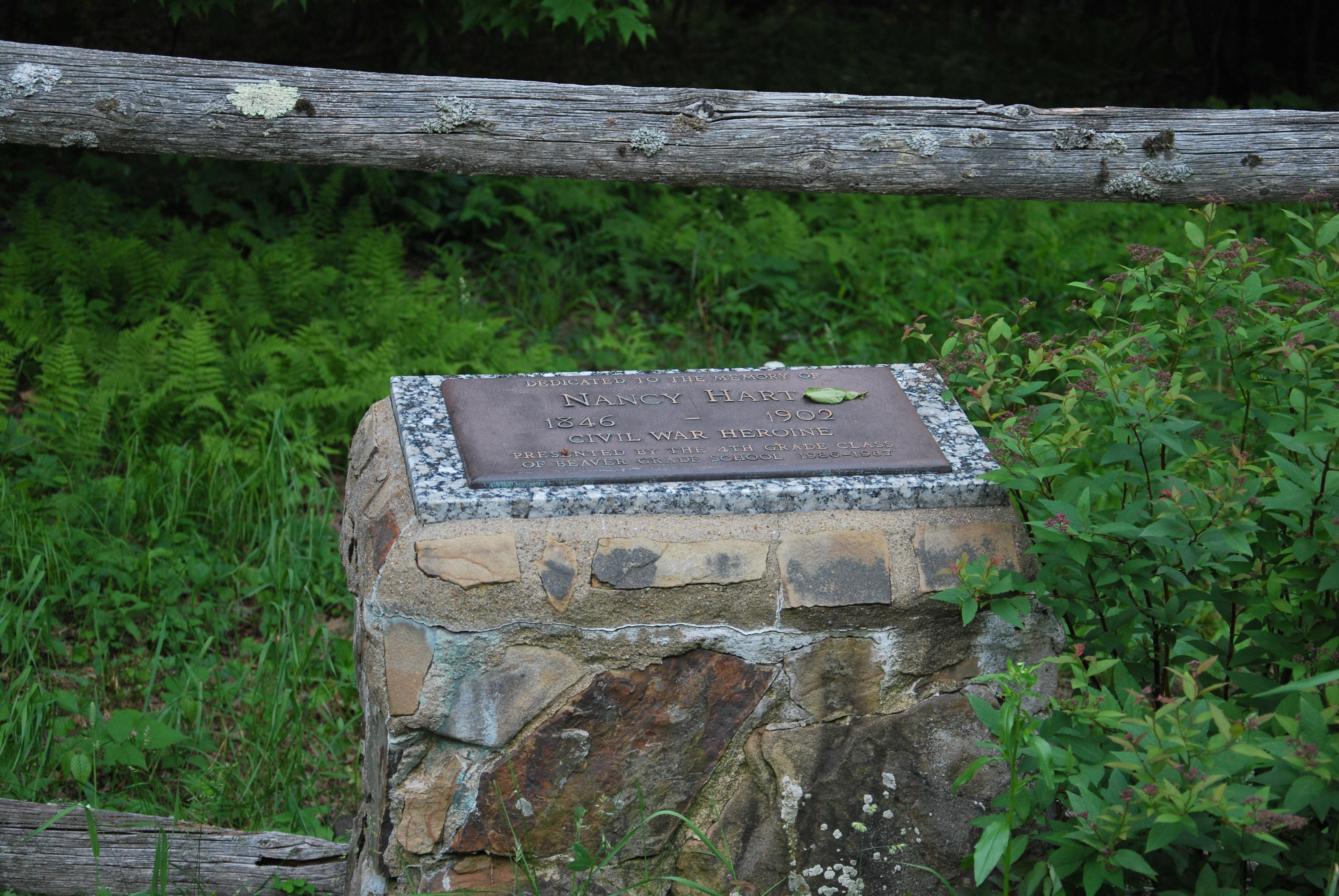 Memorial to Nancy Hart at Manning Knob cemetery in Greenbrier County, West Virginia.